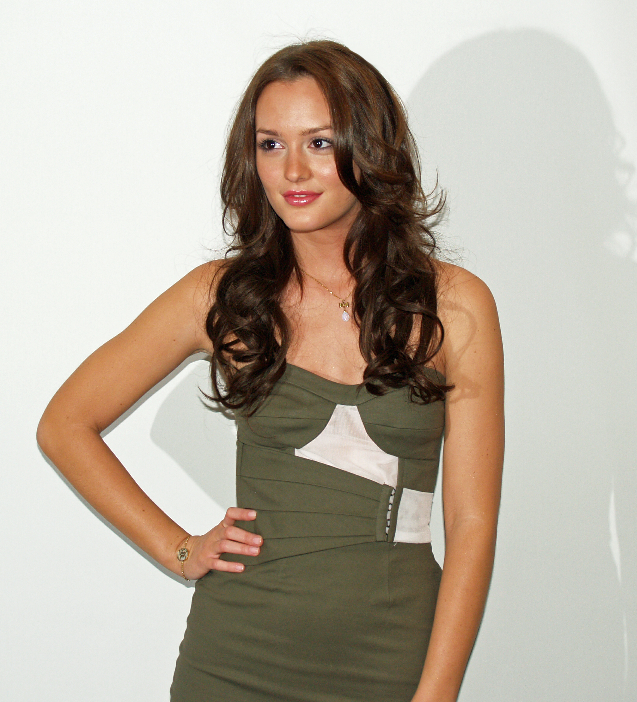 Leighton Meester at the premiere of Killer Movie at the 2008 Tribeca Film Festival. Read a blog post about this photo and event from the photographer.